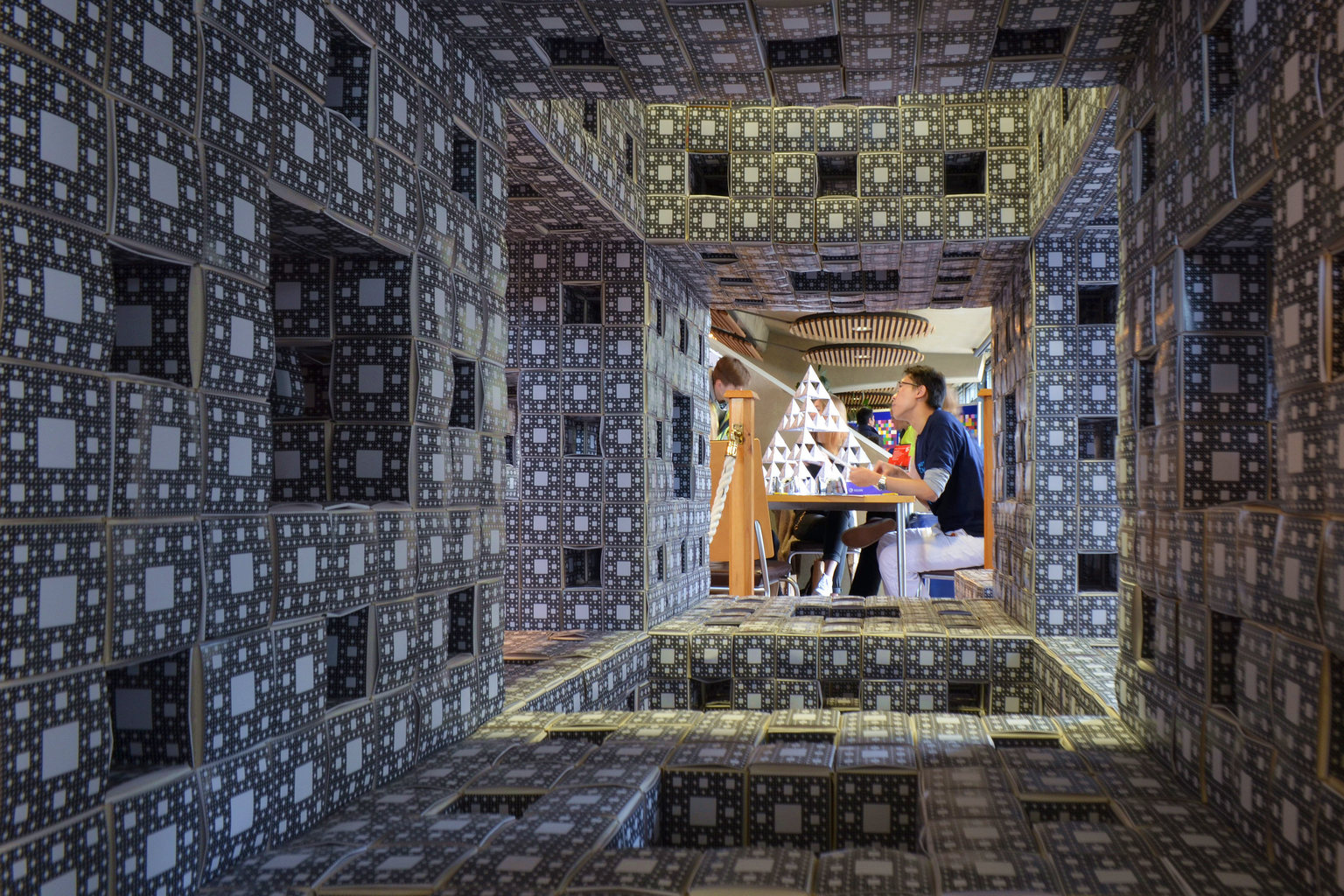 A model of a Sierpinski tetrahedron viewed through the centre of a Level 3 MegaMenger model of a Menger sponge at the 2015 Cambridge Science Festival.